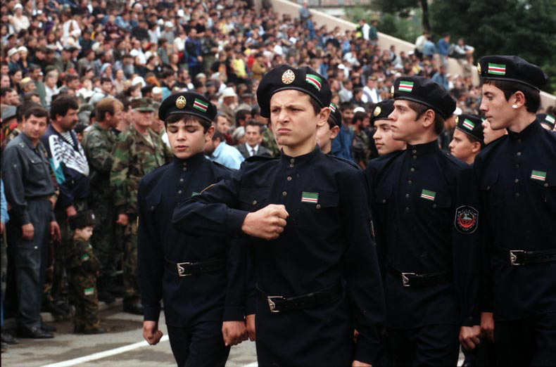 Young Warriors of the Caucasus Resistance